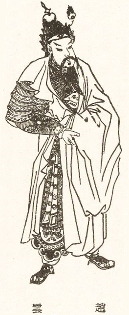 Portrait of the general Zhao Yun from a Qing Dynasty edition of The Romance of the Three Kingdoms.